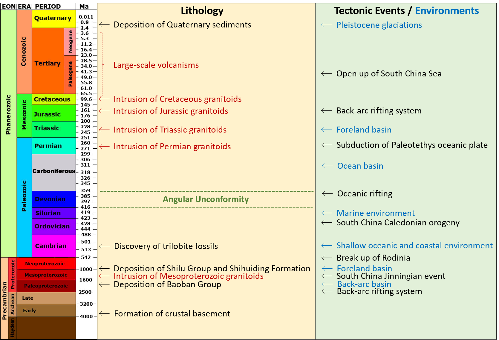 GEOLOGICAL TIMESCALE